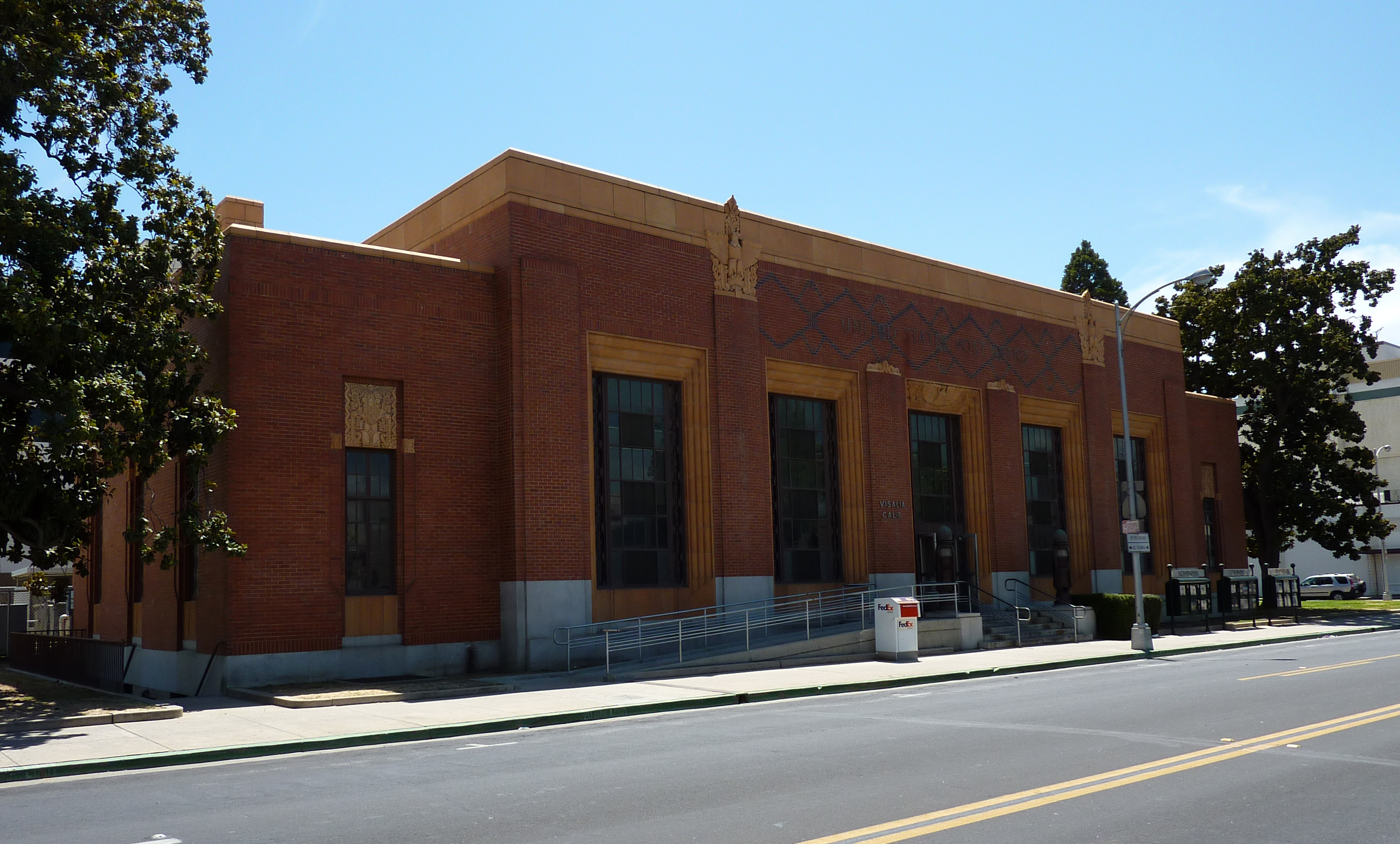 The United States Post Office Visalia Town Center Station, in Downtown Visalia, circa 1940s-1950s. A 1933 building by the Works Progress Administration in California, on the National Register of Historic Places in Tulare County. View of north facade, from across Acequia Avenue.